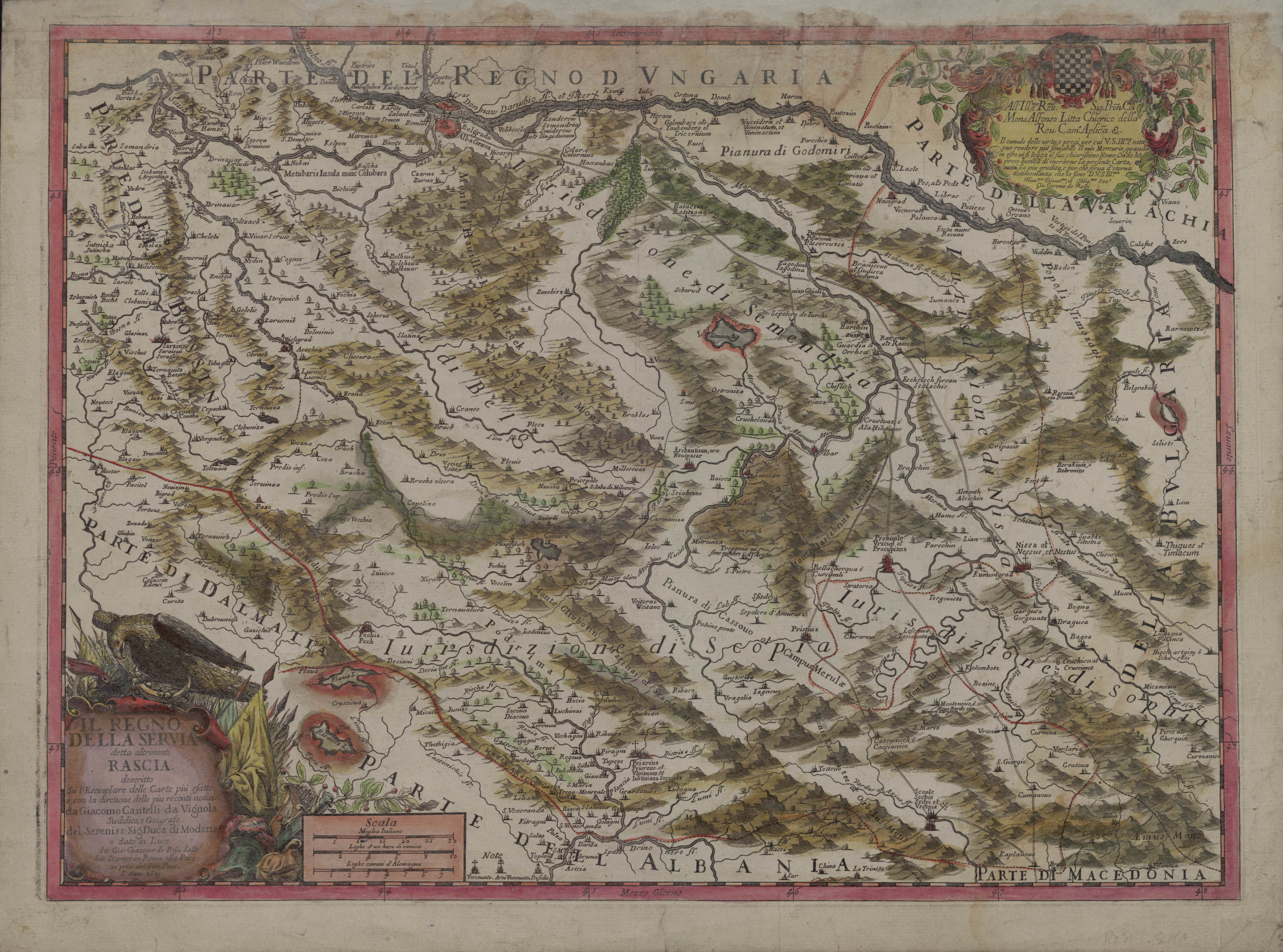 Balkan Peninsula (fragment), map